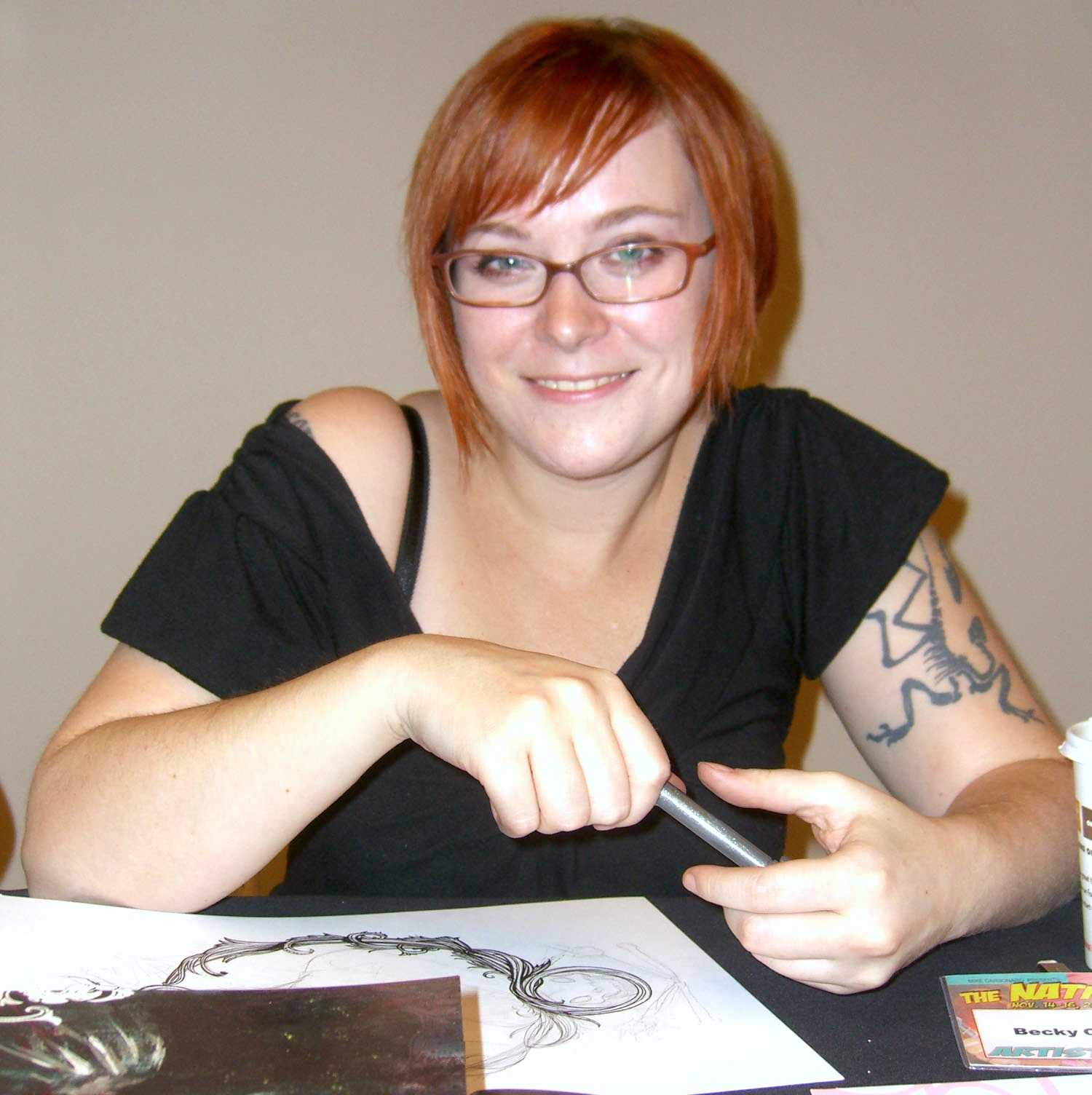 Comic book creator Becky Cloonan at the November 2008 Big Apple Convention in Manhattan.